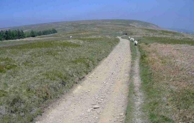 Track towards Mynydd Maen